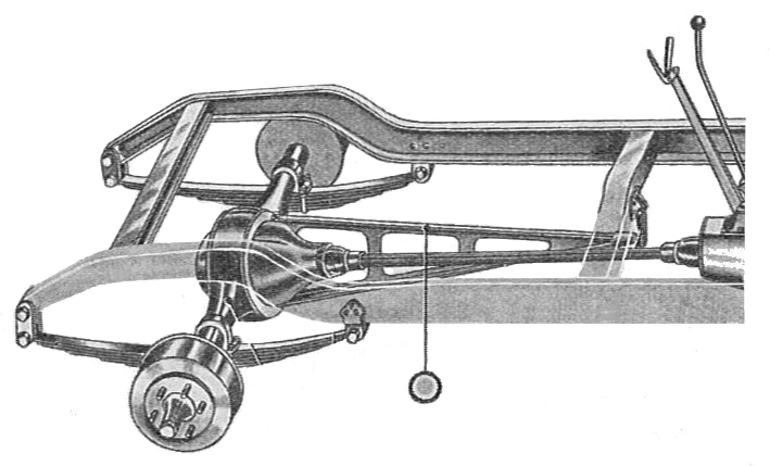 Rear axle with torque rod (Manual of Driving and Maintenance).jpg